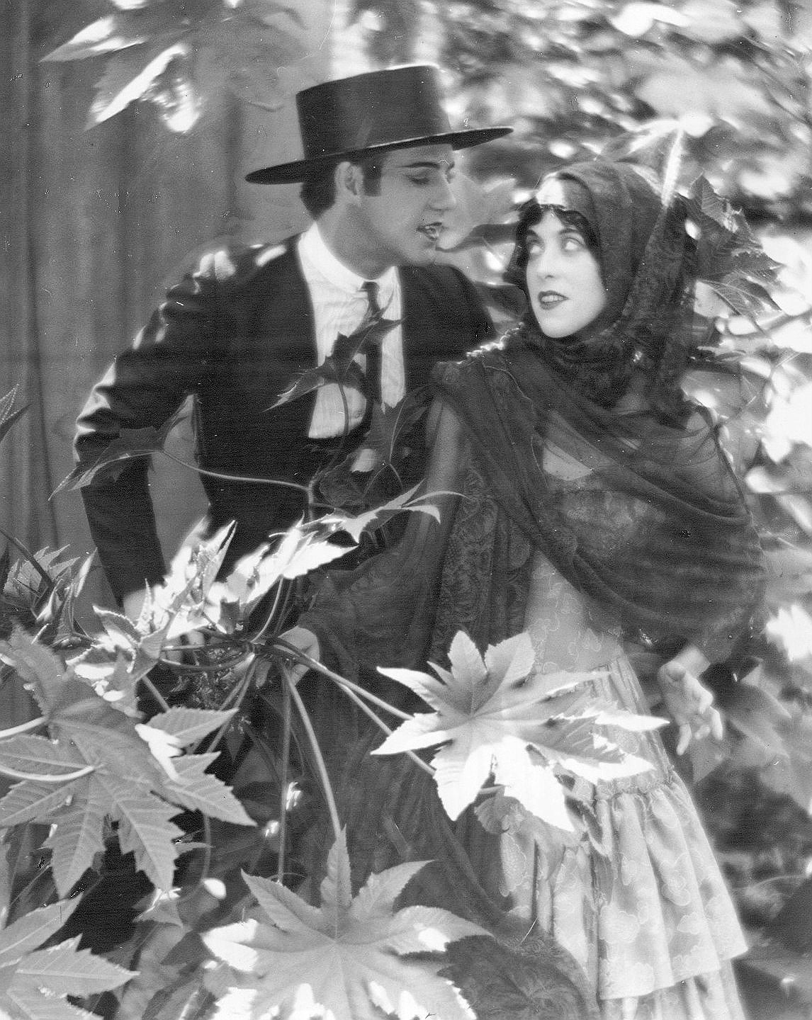 Photo of Ted Shawn and Martha Graham.